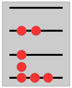 Representation of the number 218 in a counting board